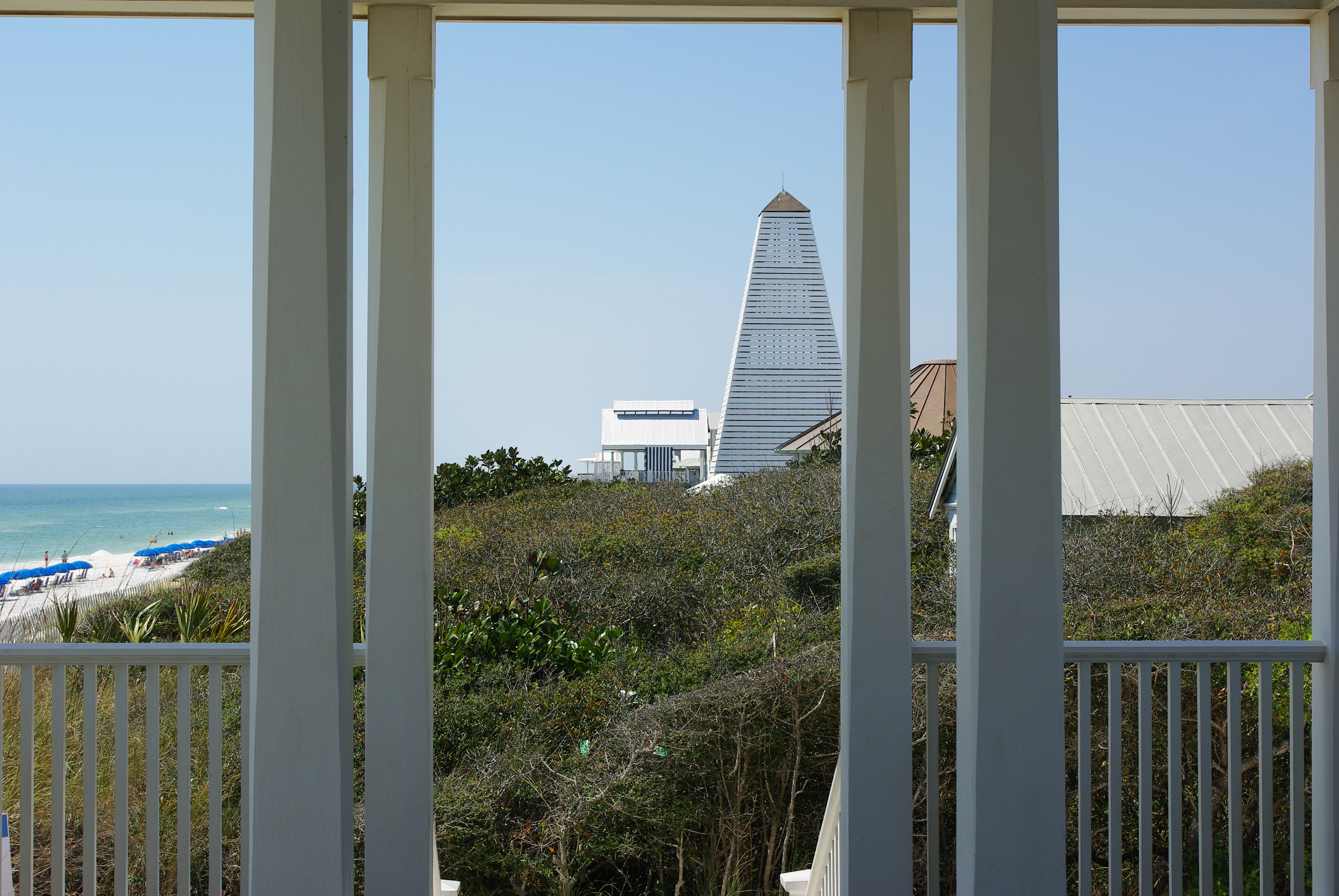 A view of the sea and a beach tower from a beach pavilion in Seaside, Florida